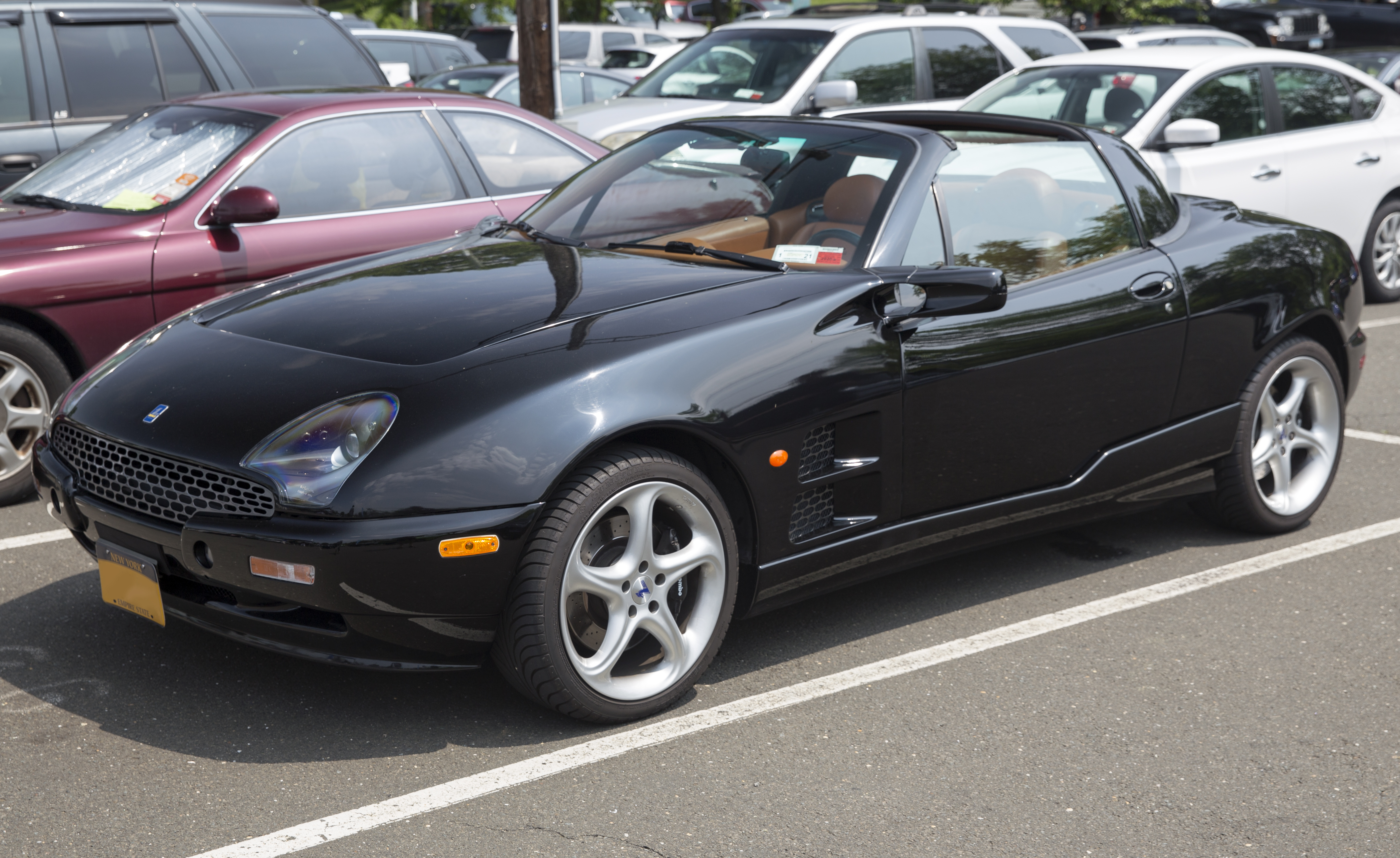 2001 Qvale Mangusta (serial number 273 - 284 were built, although I'm unsure of how the serials line up. 29 were spent passing crash tests.) in the parking lot at the 2019 Greenwich Concours d'Elegance. There were two Mangustas here this year!